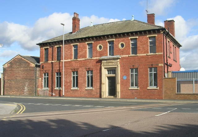 The Hunslet Engine Co - Jack Lane In business 1864-1995 building locomotives and other engines.